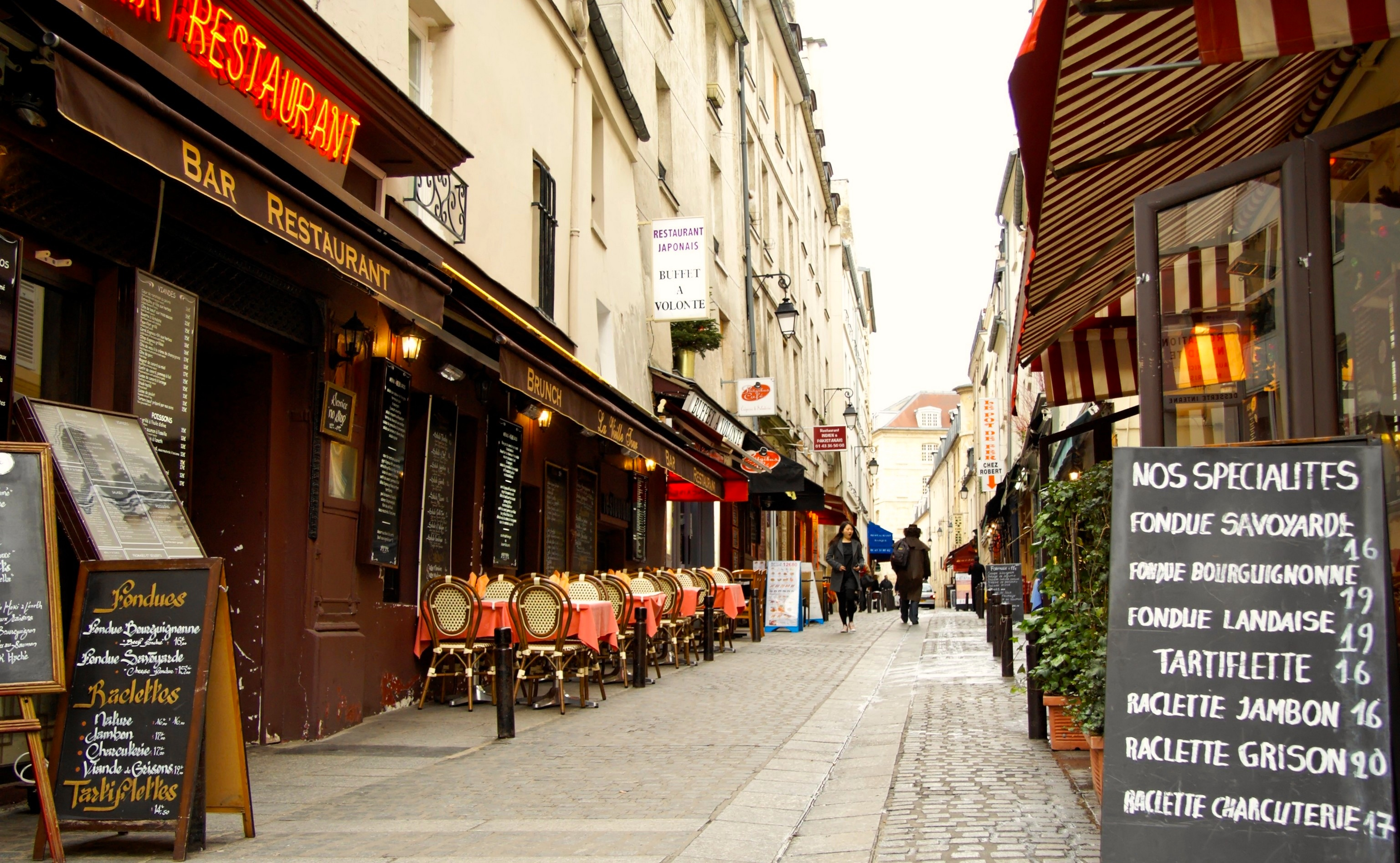 Rue Mouffetard, Paris